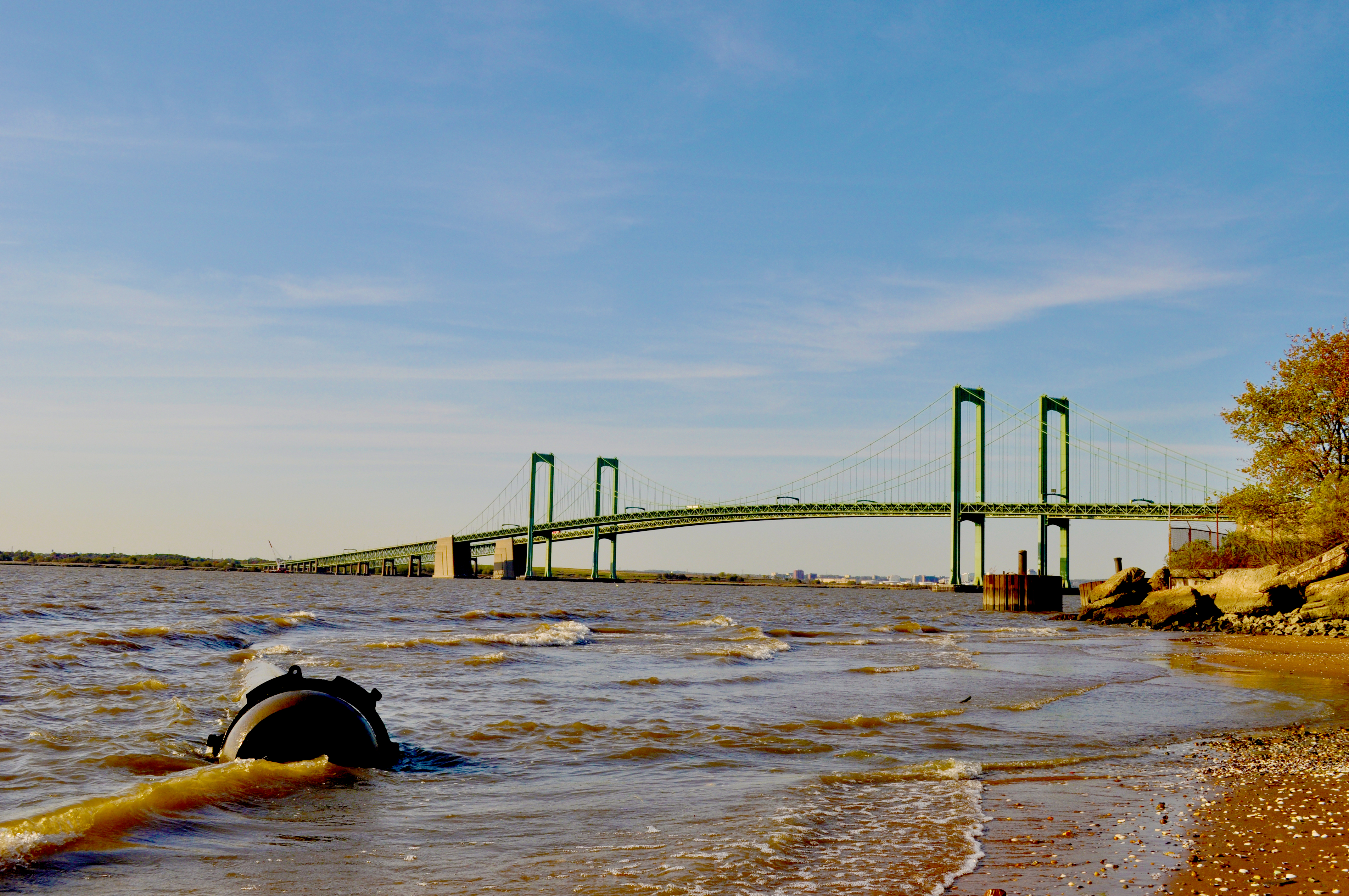 Delaware Memorial Bridge shooting from the Pennsville, NJ side